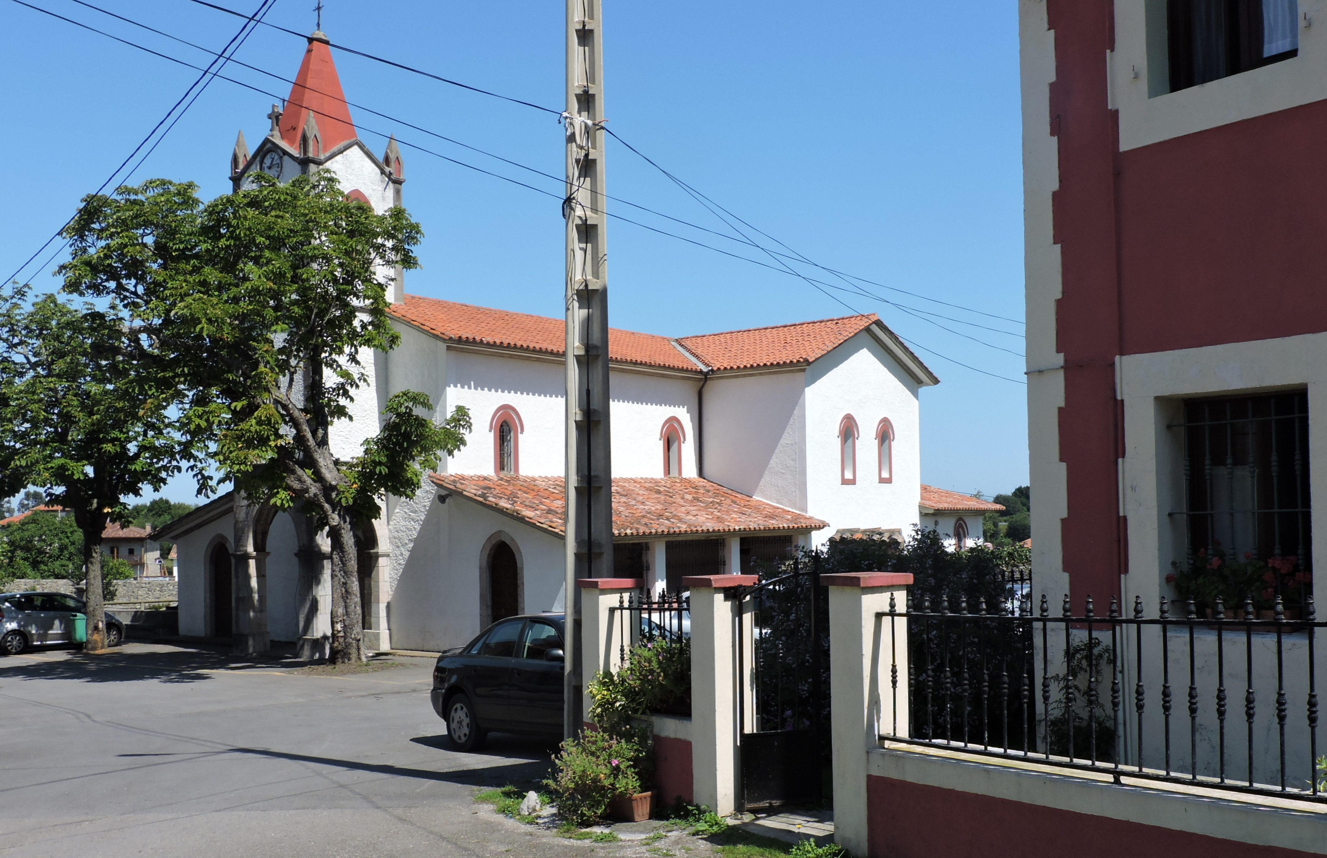 Naves (Llanes, Spain): the church